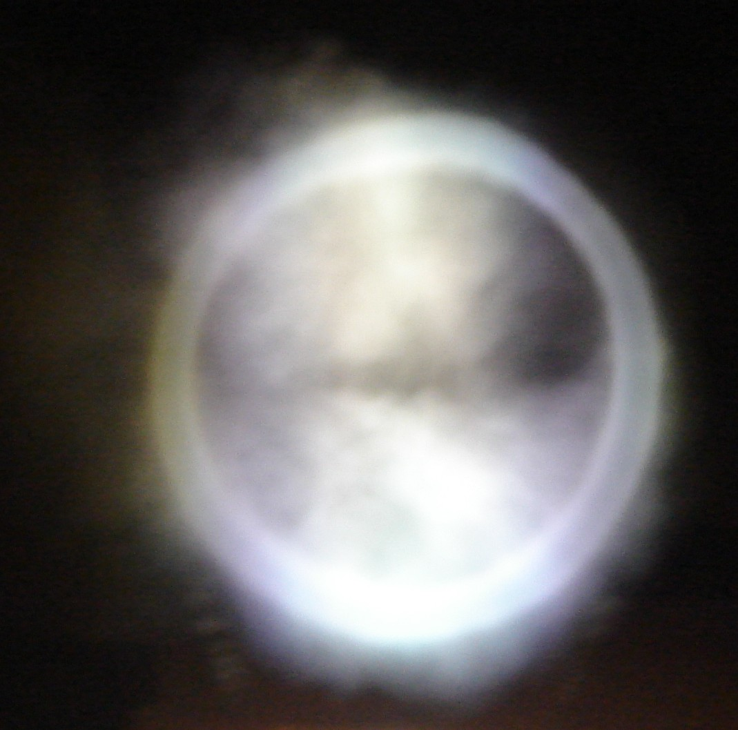 A smoke ring, formed with a smoke chamber at Bonn University.